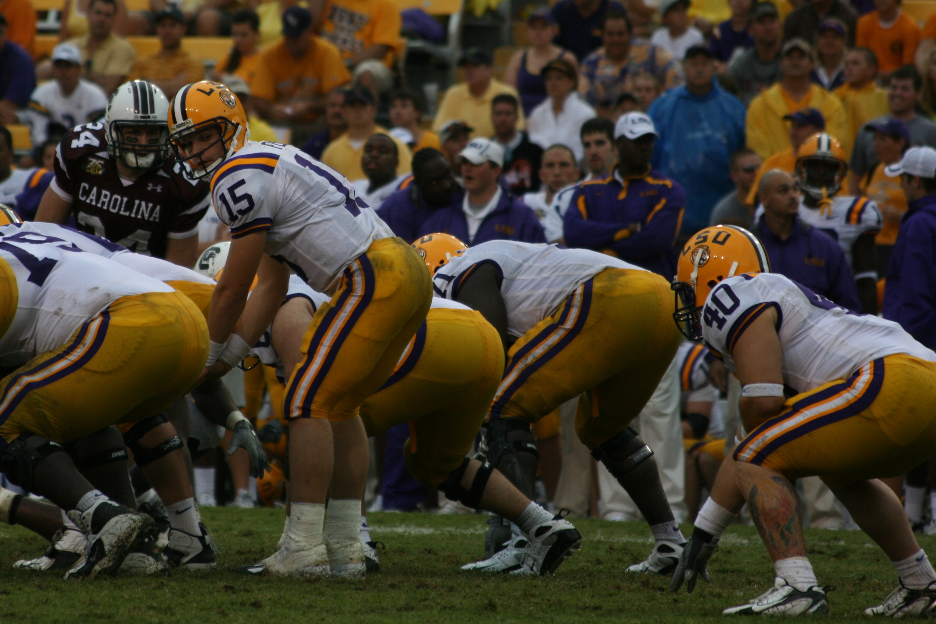 University of South Carolina playing football against Matt Flynn (#15) and Louisiana State University.